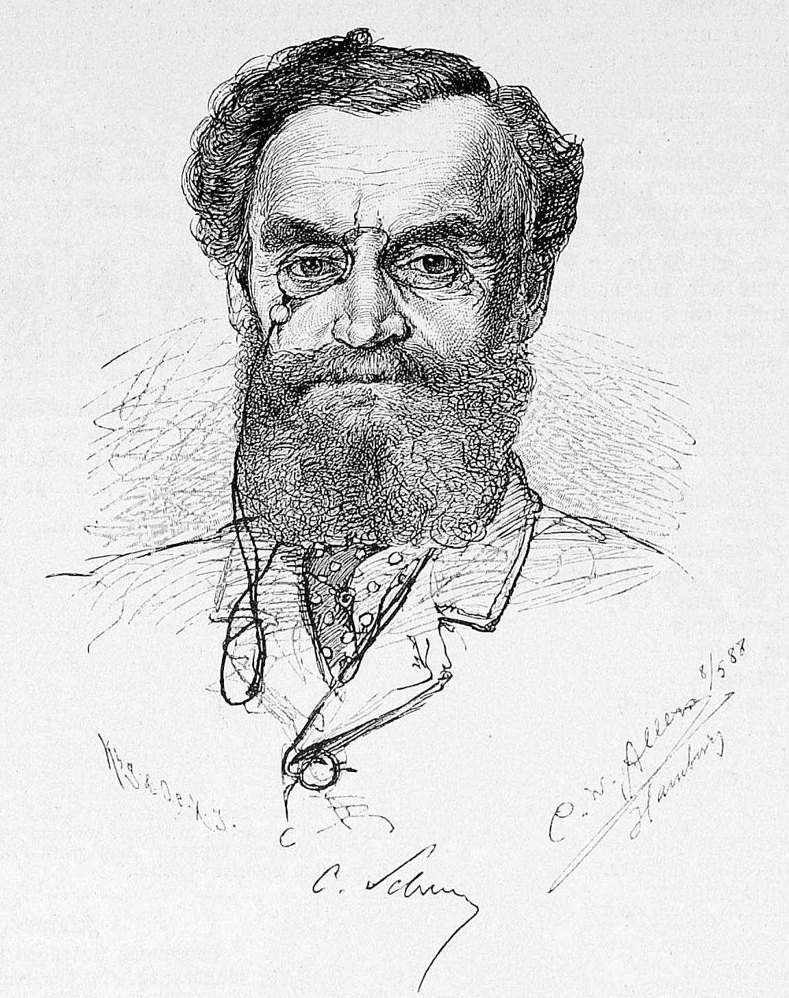 caption: "C. Schurz. Originalzeichnung von C. W. Allers."